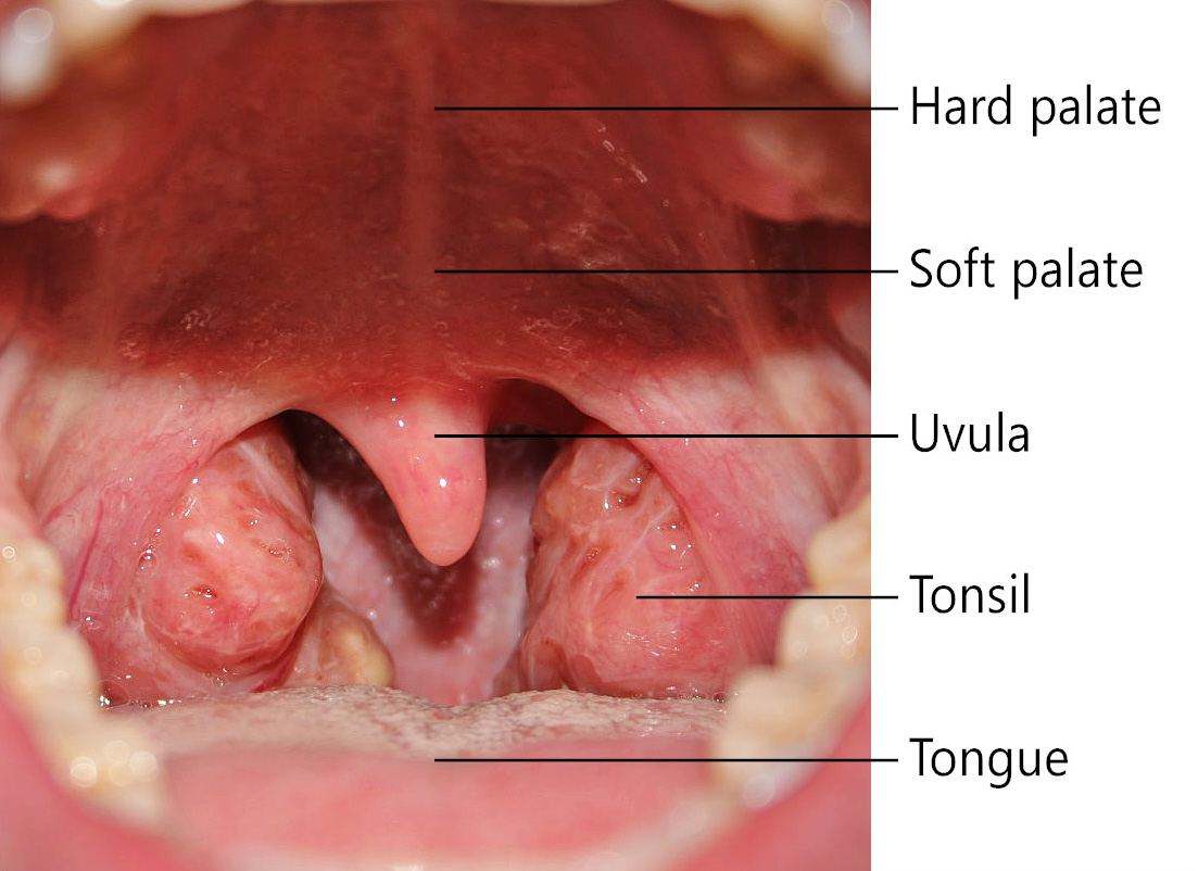 Labelled photograph of the human mouth/throat